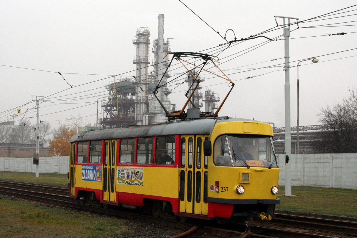 T3SUCS 237 of Dopravní podnik měst Mostu a Litvínova passes the loop Chemopetrol.